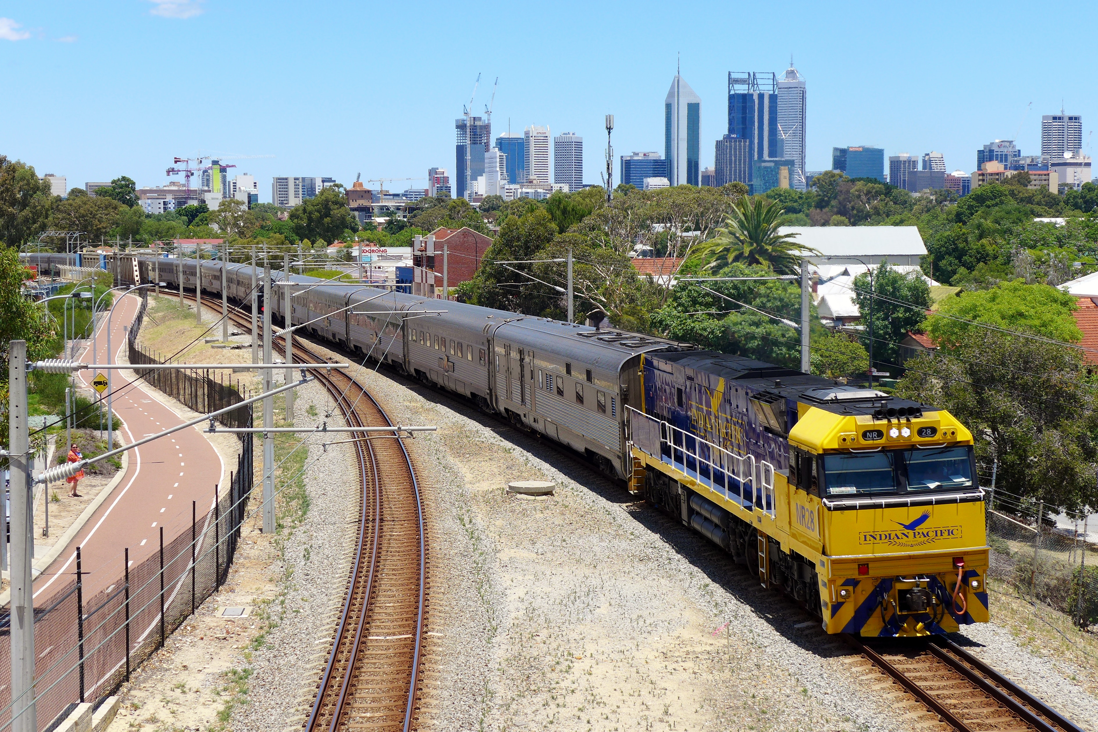 With the Perth CBD skyline in the background, NR28 is struggling up the dual gauge Mt Lawley incline as it hauls a seemingly well patronised eastbound Indian Pacific out of East Perth Terminal (not visible in the picture), at the start of its long transcontinental journey to Sydney via Adelaide, Australia.